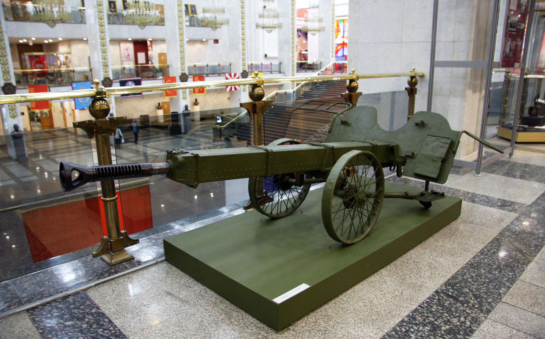 ChK-1M mod.1944 cannon - Izhevsky weapon factory exhibition